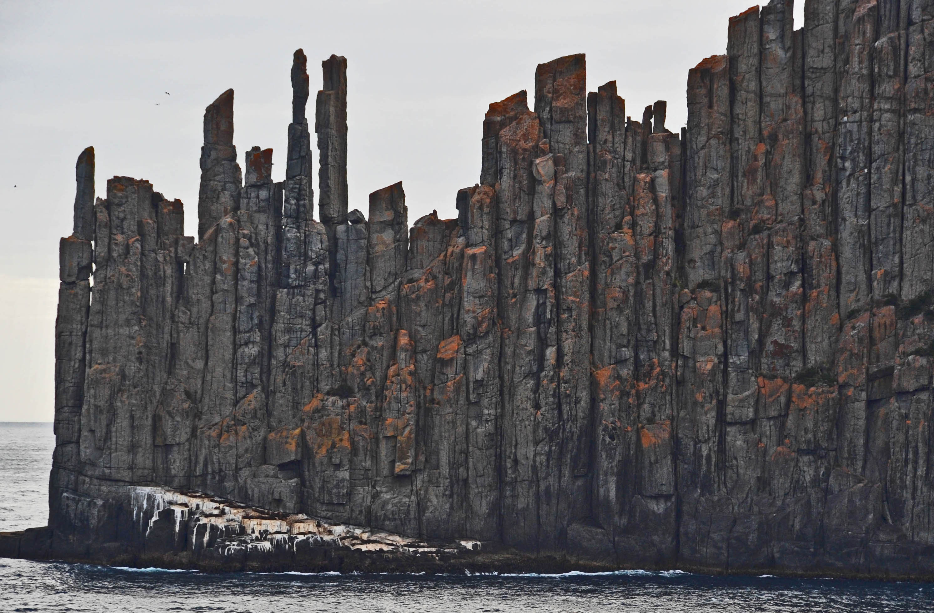 CAPE RAOUL IS AT THE SOUTHERN TIP OF TASMAN PENINSULA . SEE "TASMAN NATIONAL PARK" IN WIKIPEDIA. I AM SUBMITTING TWO PICTURES OF THIS CAPE BECAUSE IT IS CONSIDERED ONE OF THE MOST SPECTACULAR SIGHTS IN TASMANIA AND EVEN IN AUSTRALIA.